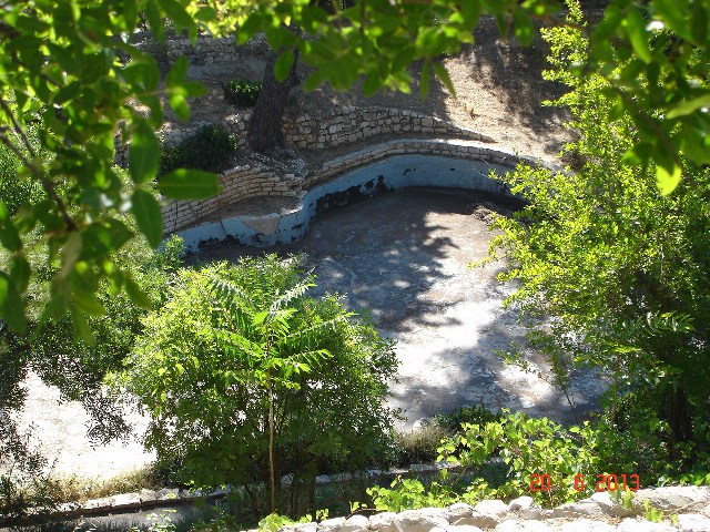 Safed Garden